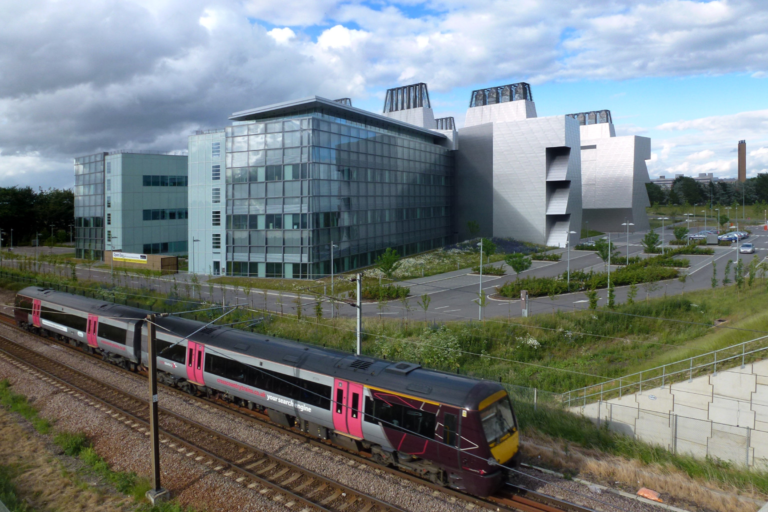 A CrossCountry train passing behind the new building of the Laboratory of Molecular Biology in the Cambridge Biomedical Campus, view from the southwest on the Cambridgeshire Guided Busway bridge on 22 June 2013.